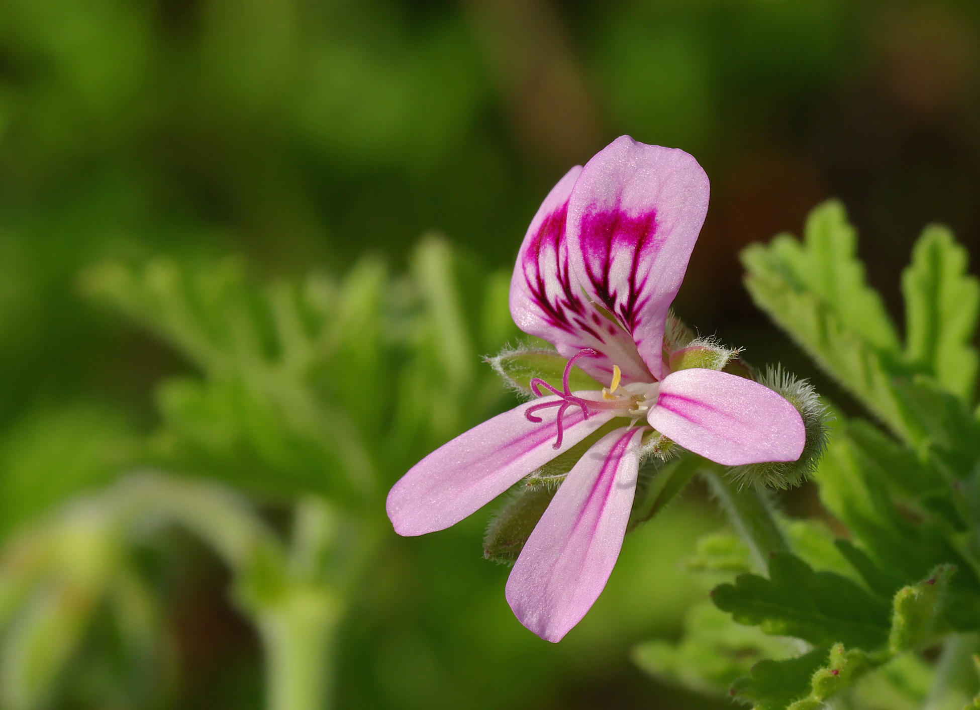 Rose Geranium.